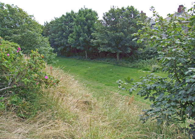 Cavendish Park Barrow Island The grassed area running diagonally across the photograph is the site of the former single track railway branch line which separated the east and west sides of Island Road. The railway brought workers from the surrounding area to work in the shipbuilding and associated engineering works in Barrow.